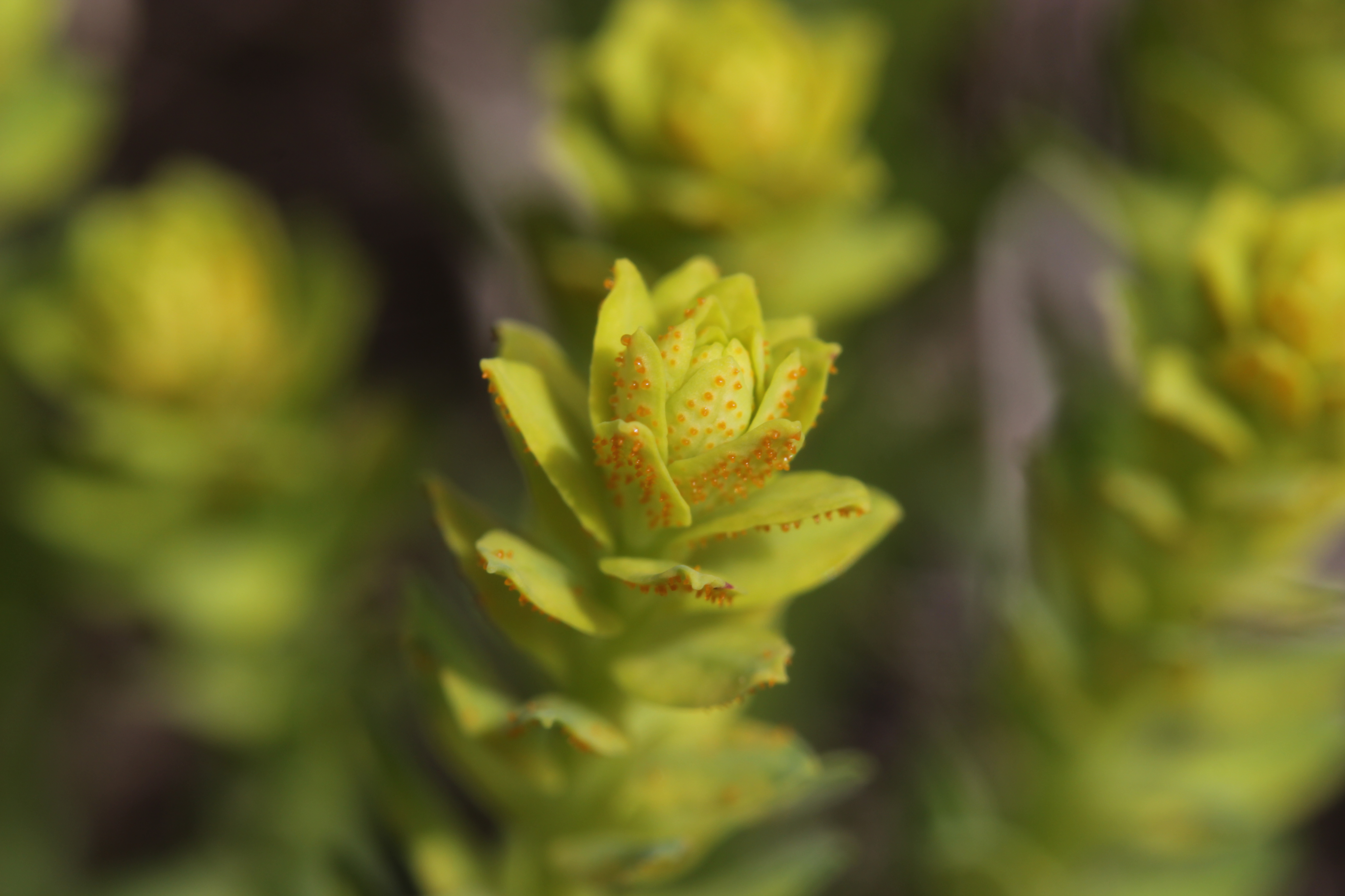 Uromyces pisi-sativi on Cypress Spurge - Euphorbia cyparissias